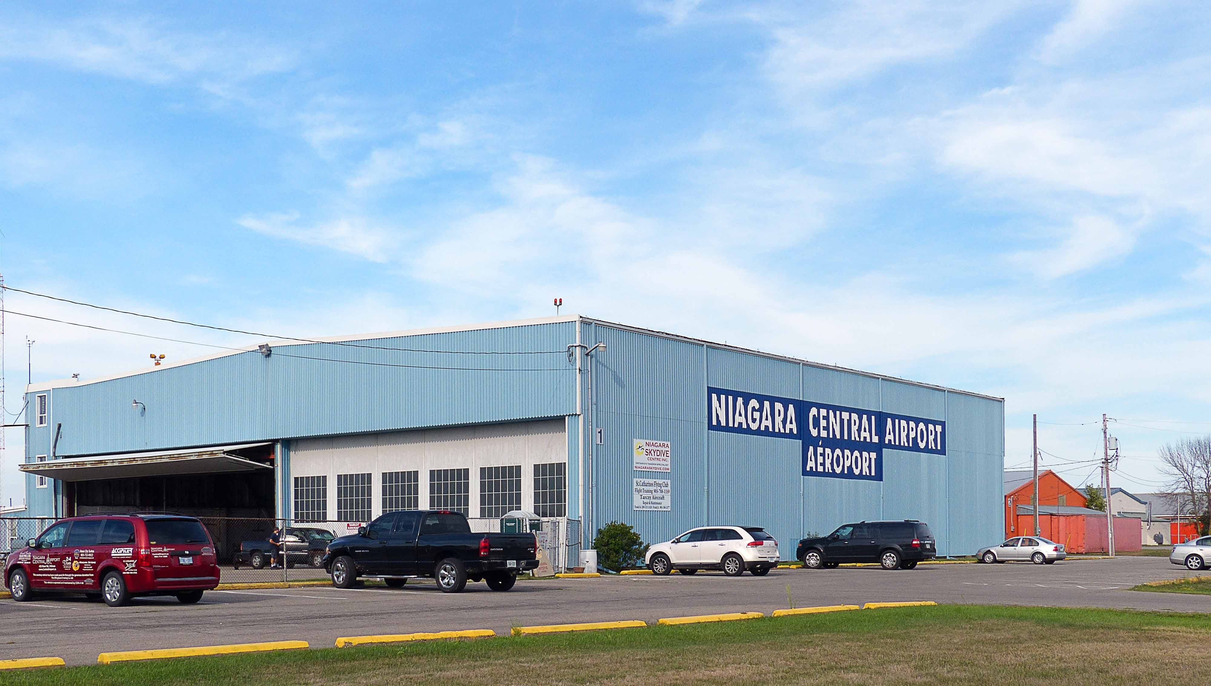 The main hangar at the airport, as seen in August of 2016. The airfield was built during 1940-1941 as the primary relief, or "R.1", field for RCAF Station Dunnville, a unit of the British Commonwealth Air Training Plan (in Canada). It's first name was "RCAF Welland".